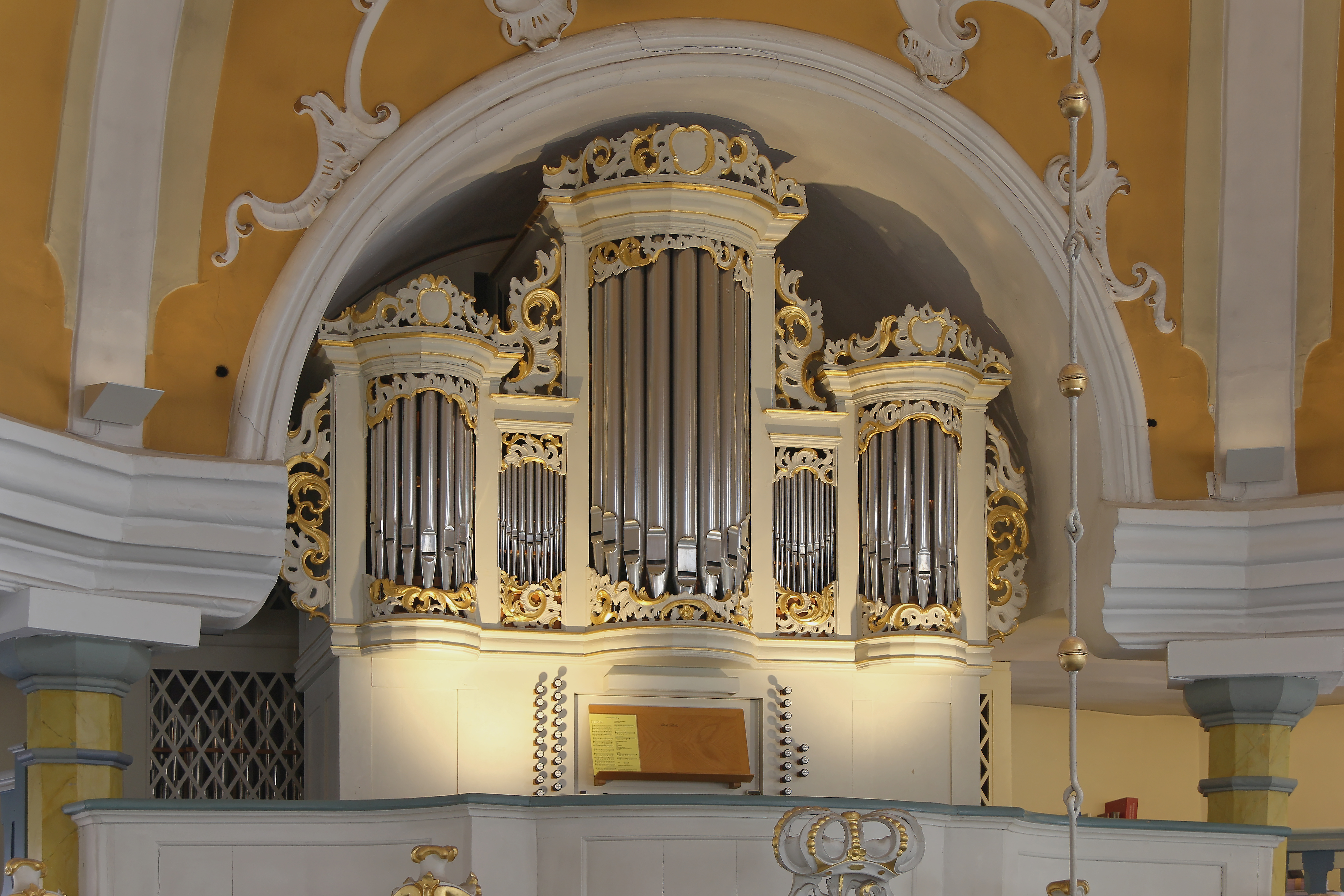 Pipe organ in the Market Church in Hamburg-Niendorf